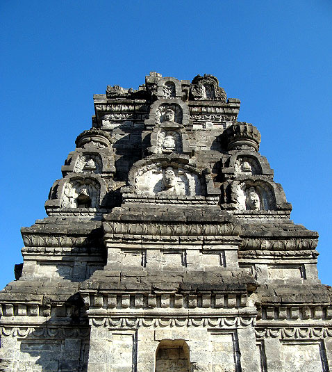 This is the north side of the roof; all four sides of the roof have the same decoration, namely heads of Shiva inside horseshoe arches.